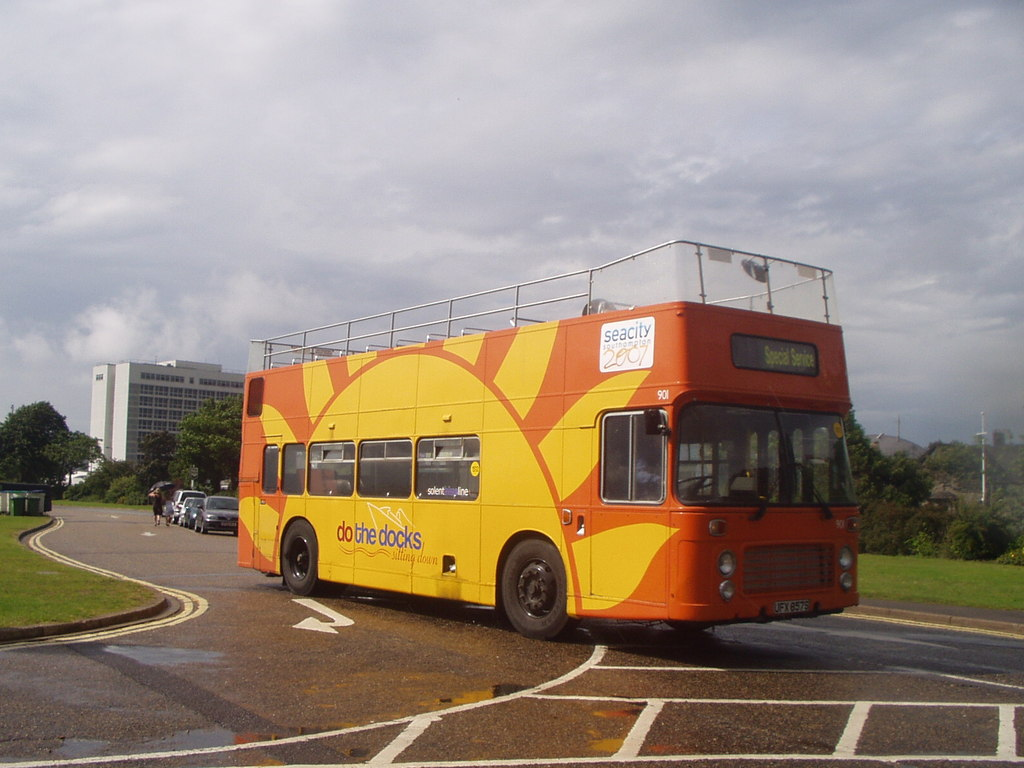 Road in Mayflower Park A road in Mayflower Park. Open-topped Bristol VR bus has UFX 857S has just completed a tour of the docks (in spite of heavy rain!). Southampton's Holiday Inn can be seen in the background.